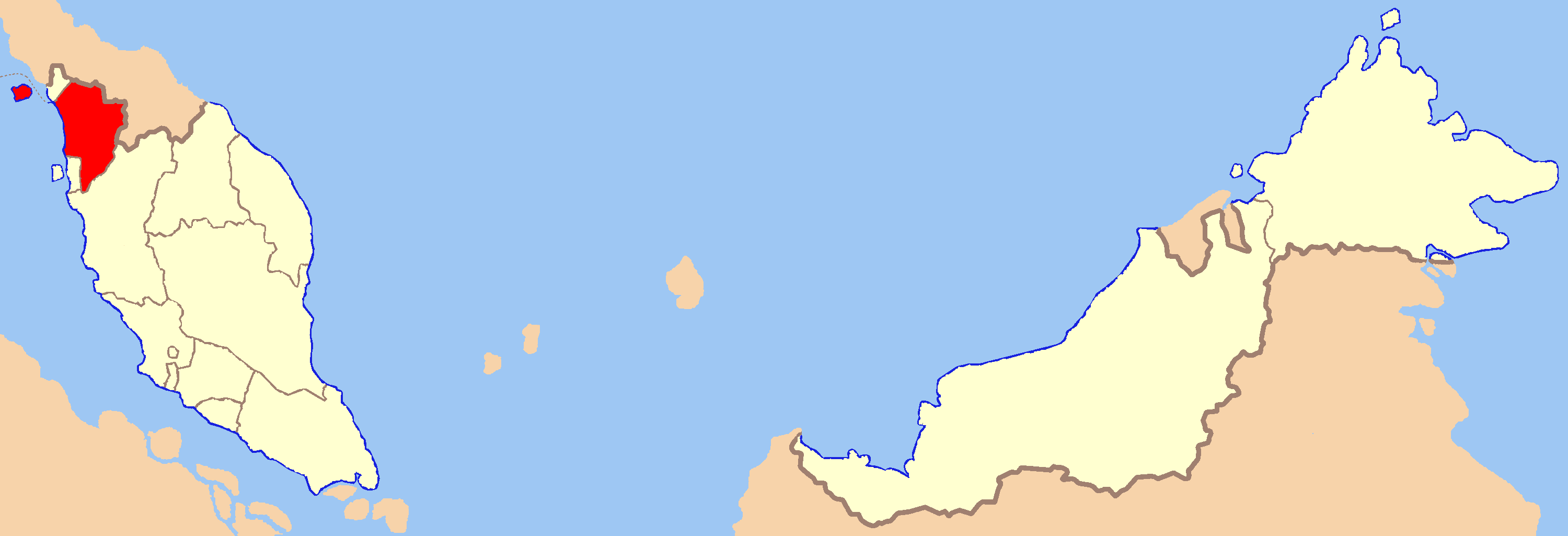 Map of Malaysia, with Kedah highlighted in red.